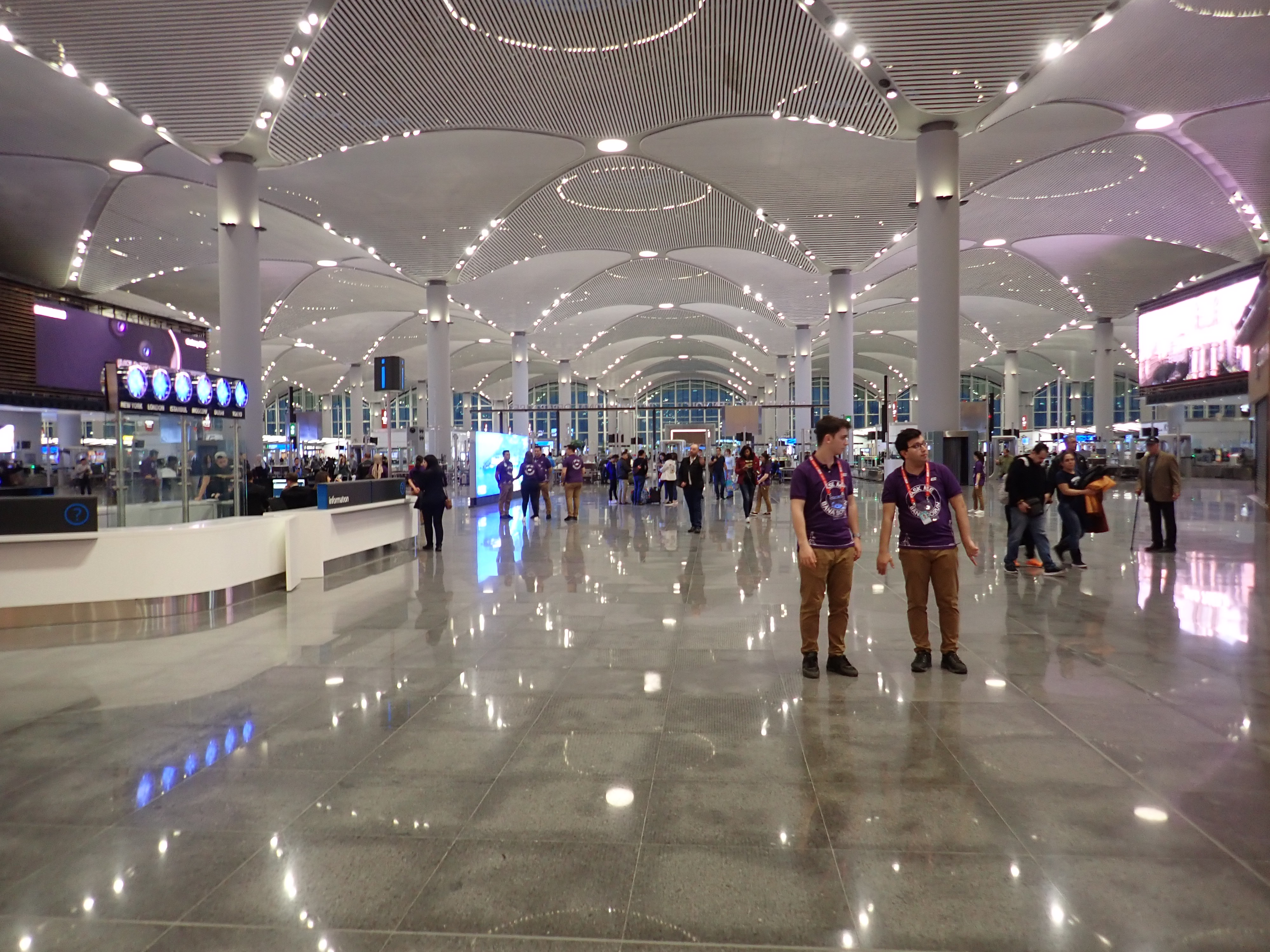 Istanbul Airport large hall inside